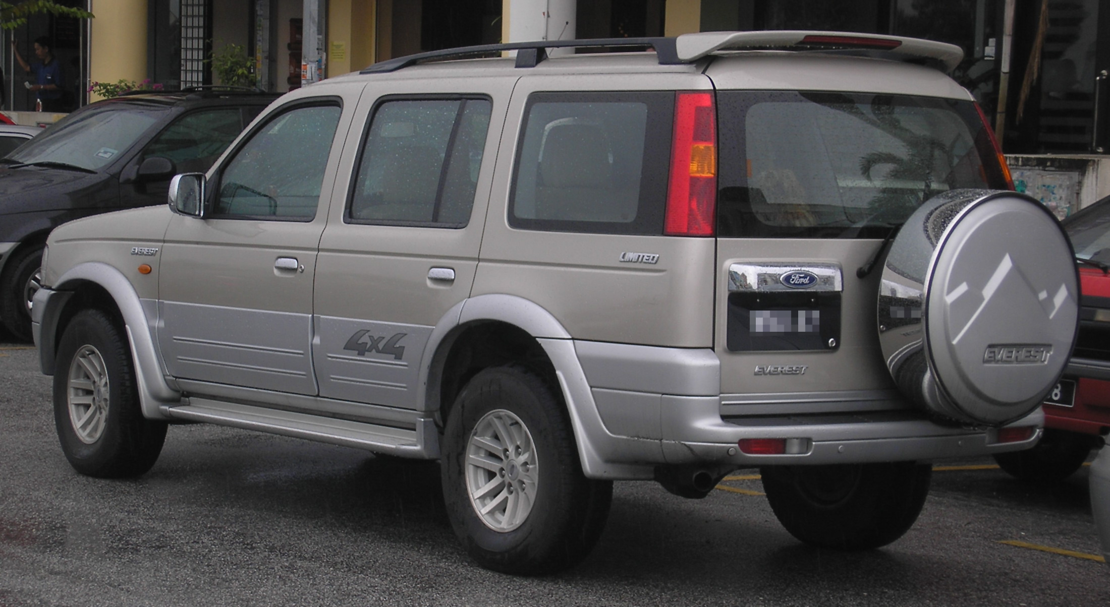 Rear-side shot of a first generation Ford Everest, in Serdang, Selangor, Malaysia.